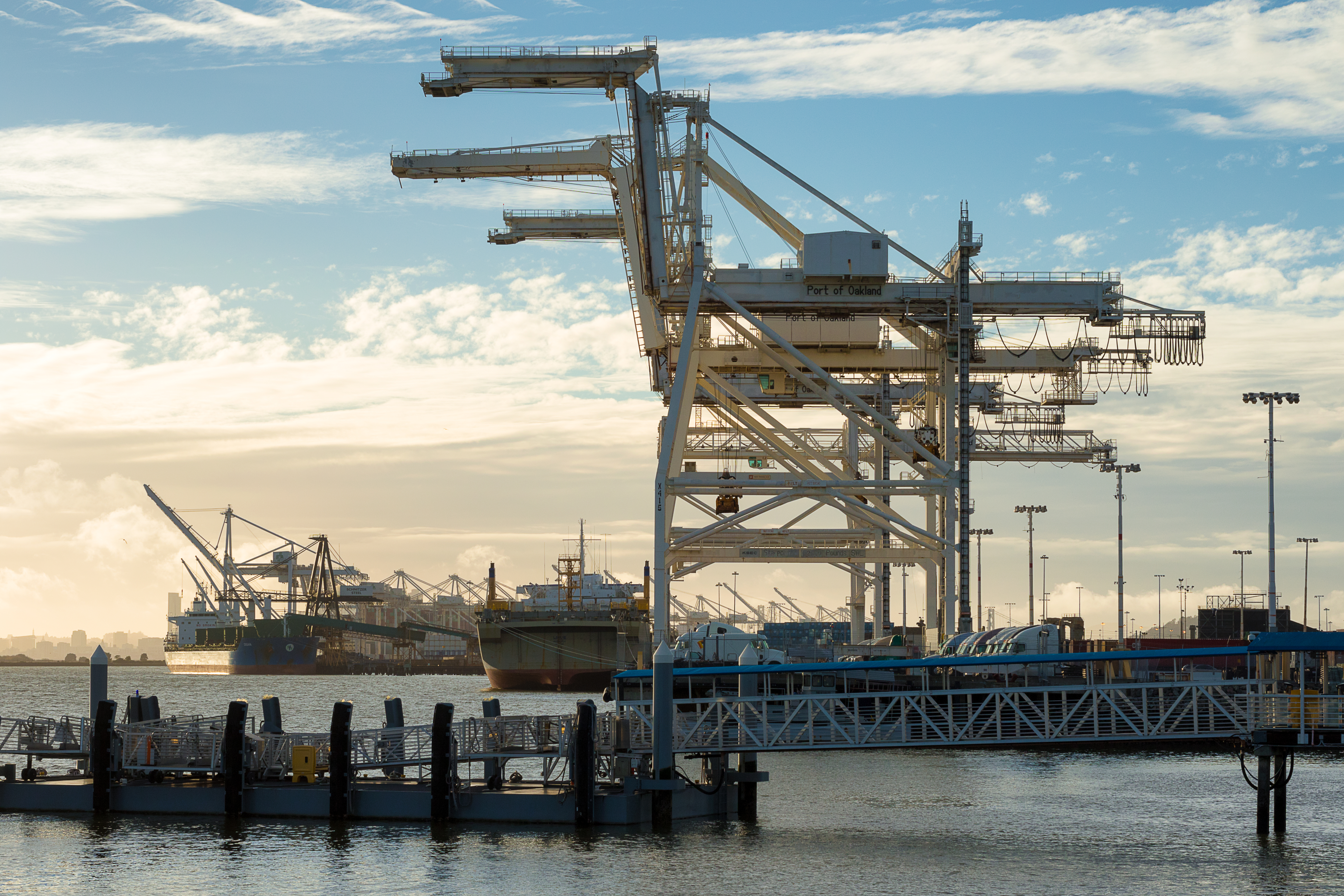 Cranes at Oakland's container terminal